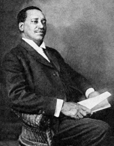 edited version of the portrait used in William Henry Sheppard's book, "Presbyterian Pioneers in Congo", pub. 1917.